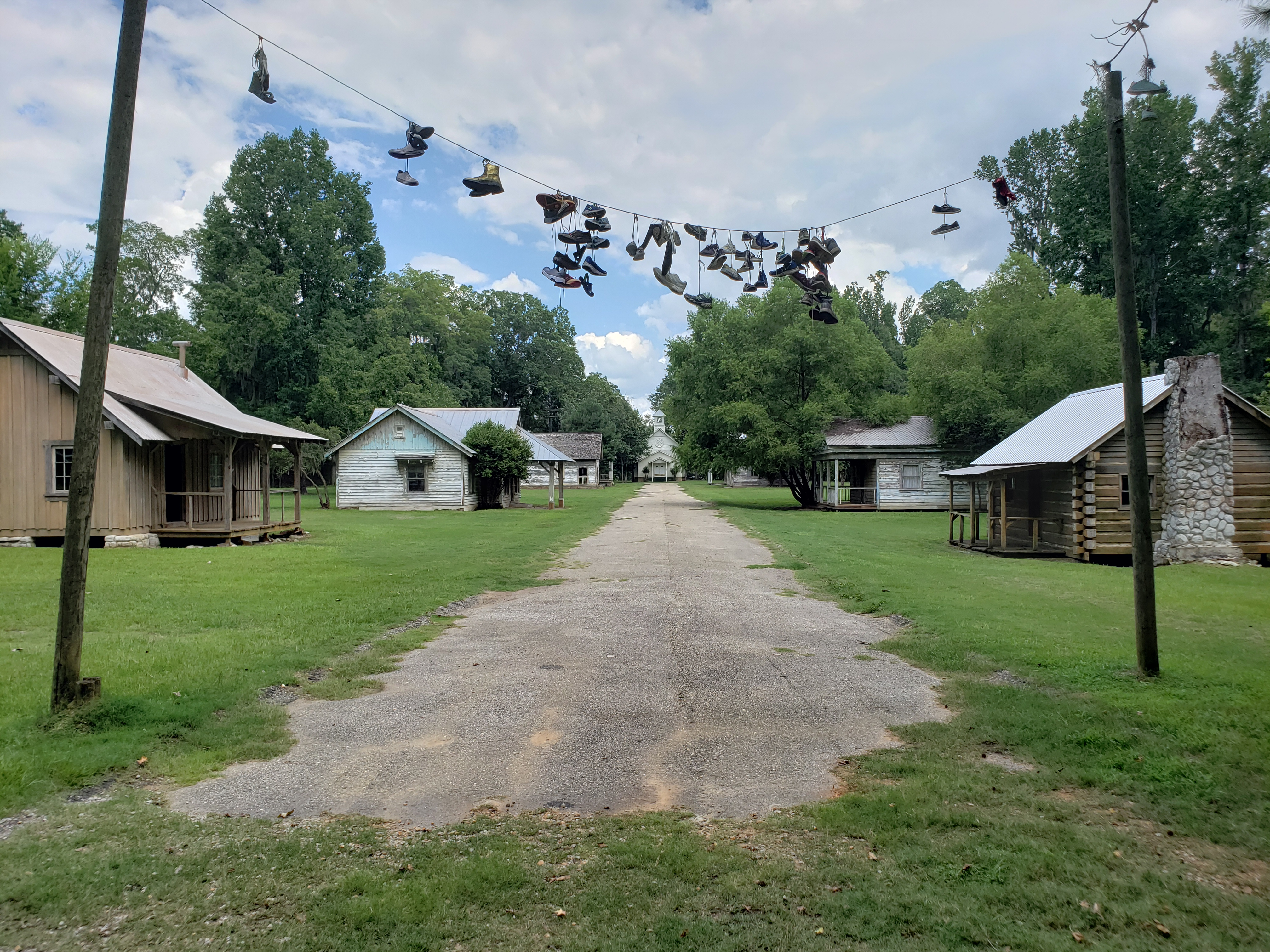 A photo of an abandoned movie set in Alabama named "Town of Spectre". Shot at the end of the street showing many of the houses and spectacles.